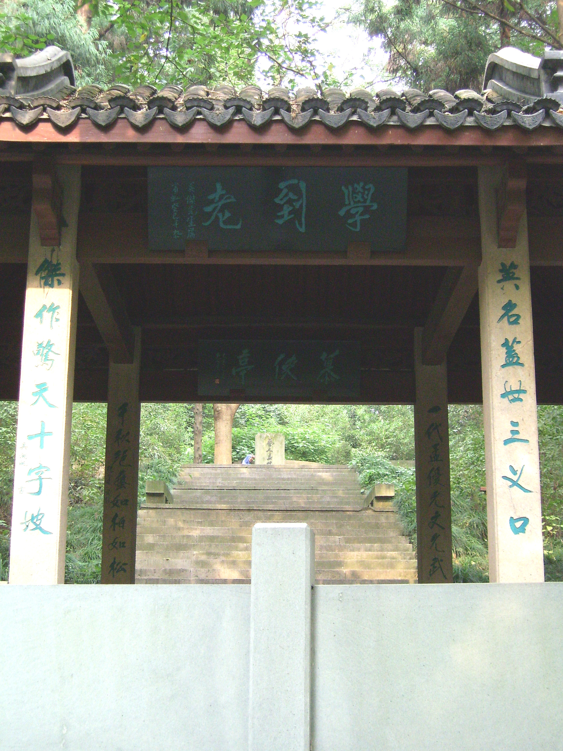 Tomb of Gai Jiaotian